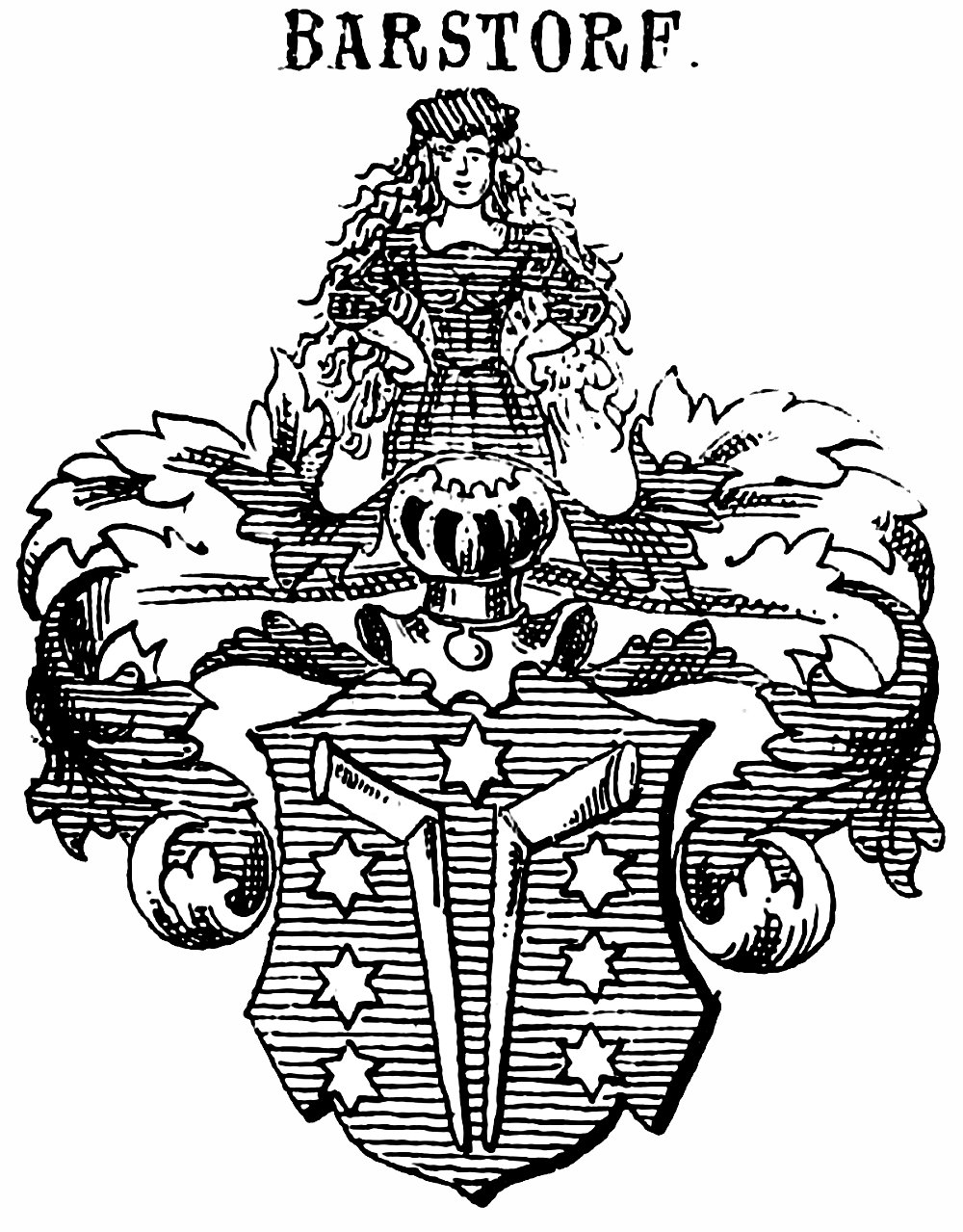 Coat of arms of the v. Barsdorf family, Brandenburg and Mecklenburg, Germany, from George Adalbert von Mülverstedt und Ad. M. Hildebrandt (Bearbeiter): L. Siebmacher's grosses und allgemeines Wappenbuch in einer neuen, vollständig geordneten und reich vermehrten Auflage mit heraldischen und historisch-genealogischen Erläuterungen. Sechster Band, Fünfte Abtheilung. Der abgestorbene Adel der Provinz und Mark Brandenburg. Bauer und Raspe, Nürnberg 1880 (pl.3)